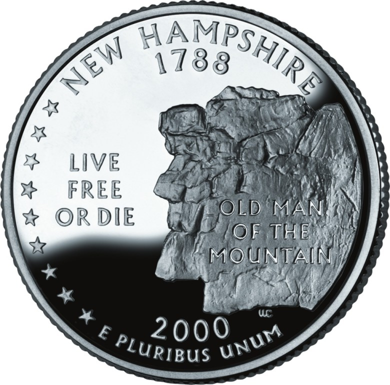 The state quarter for New Hampshire, showing the "Live Free or Die" motto and the "Old Man of the Mountain" face